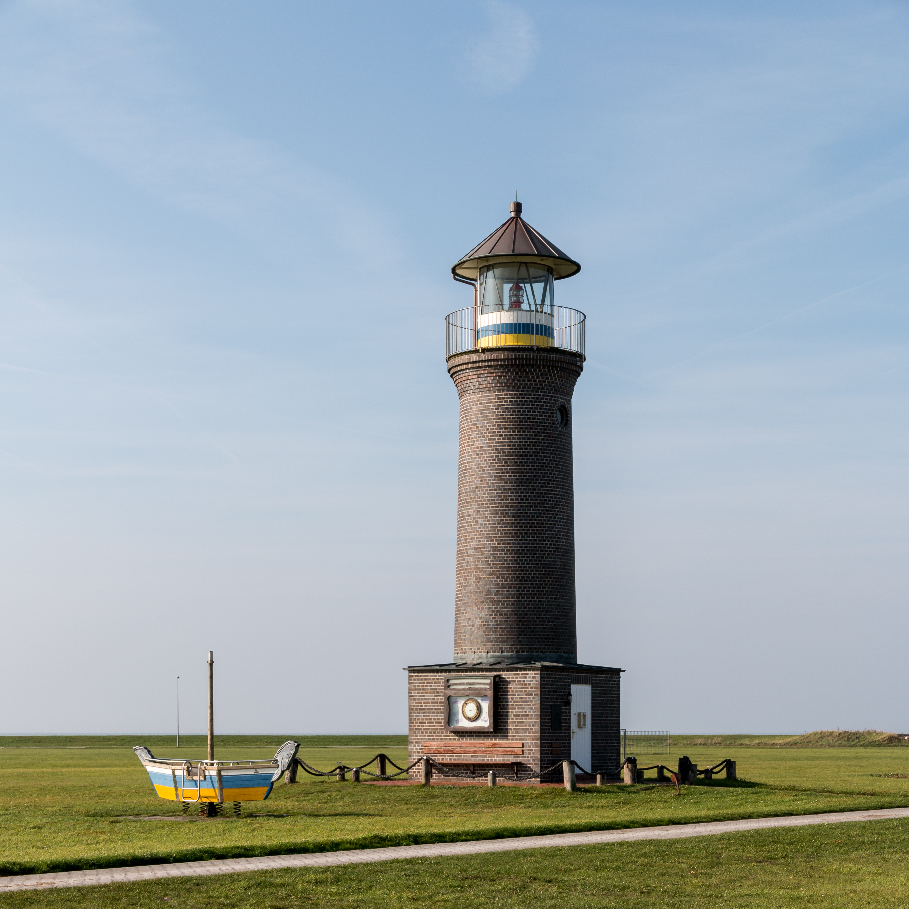 Lighthouse at the harbor, Juist, Lower Saxony, Germany